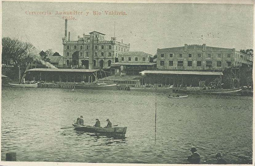 Cervecería Anwandter (Anwandter Brewery), Valdivia, Chile, circa 1900.